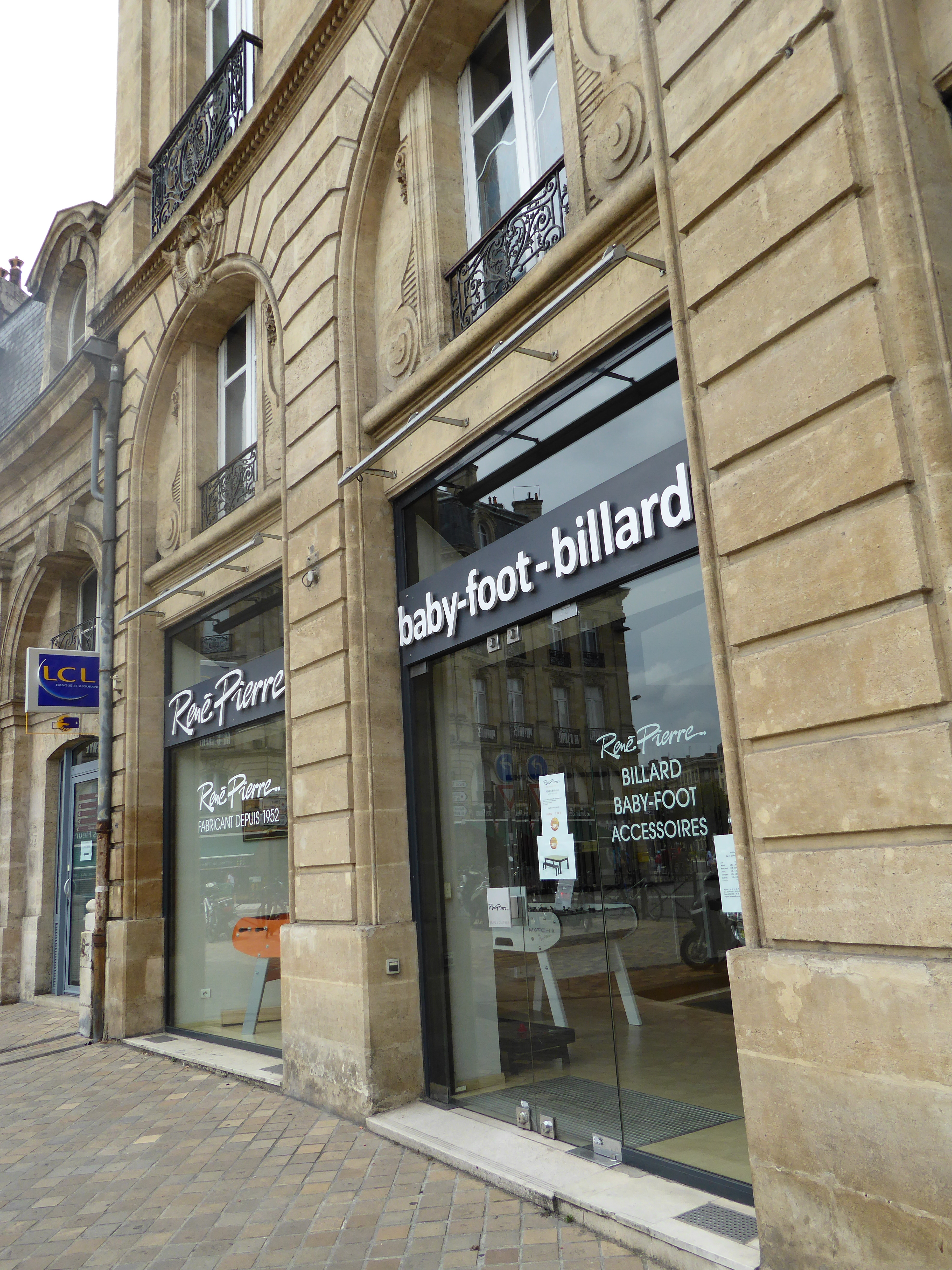 Rene Pierre, Place de Tourny, Bordeaux, France, July 2014